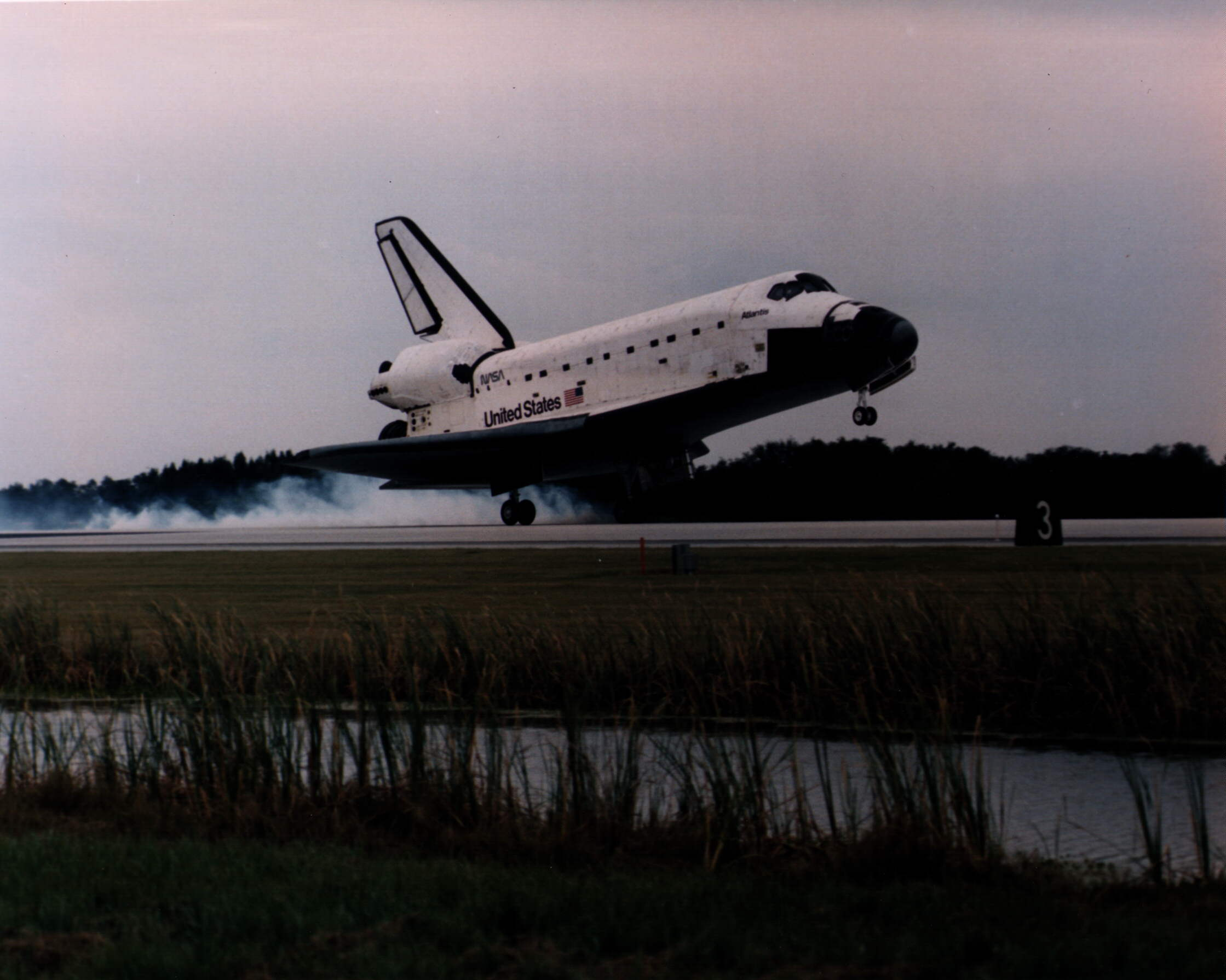 Kennedy Space Centre, Florida - Space Shuttle Atlantis returns to Earth following STS-74, landing on Kennedy Space Centre's runway 33..